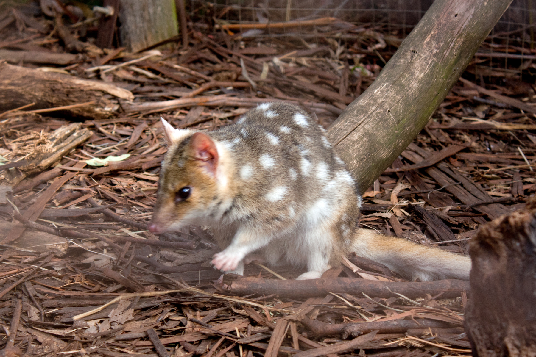 At the Port Arthur Tasmanian Devil Conservation Park